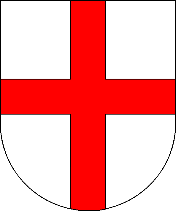 Coats of arms of the prince-bishop of Konstanz